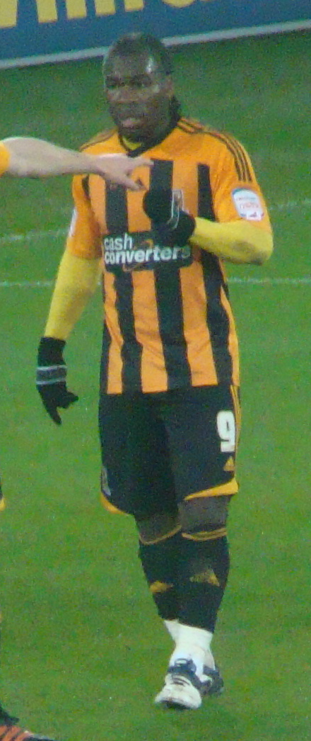 Aaron McLean. Image cropped from original at flickr.